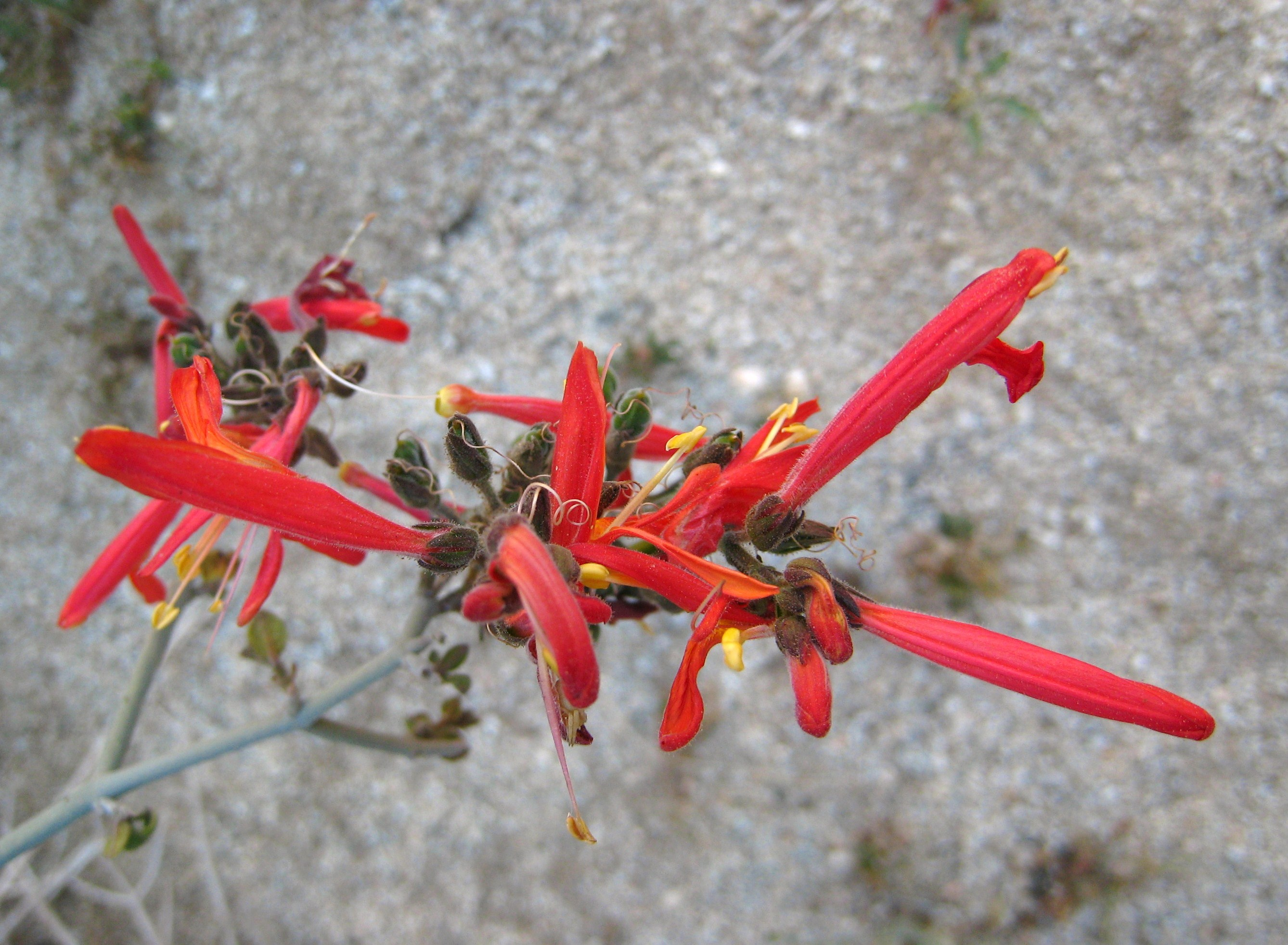 Red flowers of the hummingbird bush Justicia californica, photographed at Anza-Borrego Desert State Park, CA. It looks like there may be a small crab spider hiding in the central flower in the bottom of the picture.